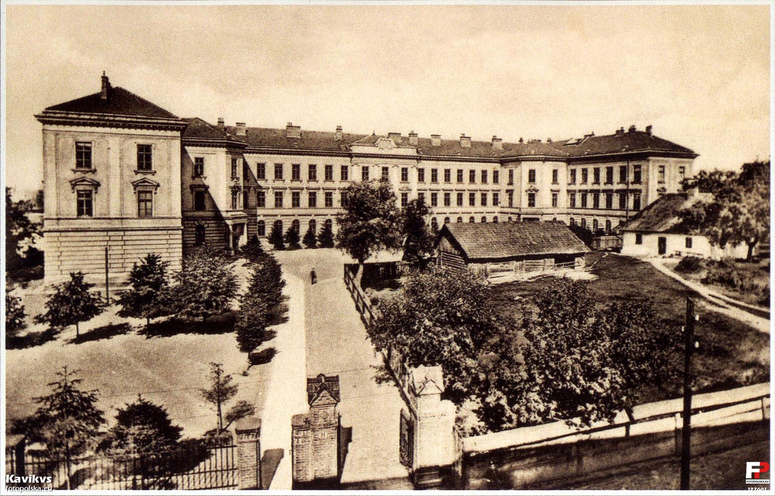 Budynek Gimnazjum zbudowanego w 1895, przełom XIX/XX wieku